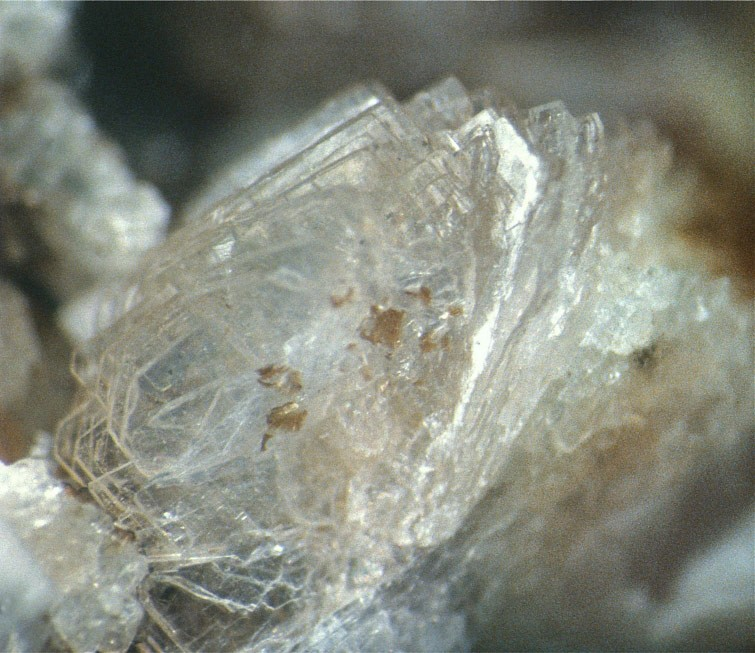 FOV 4.7 x 4.0 mm. Via Jean-Pierre Beckerich. Formerly MOB coll. This specimen was extensively studied (as MSH UK110) at Laurentian University. It is now in the collection at ROM. This is an old single focus film photo taken before the analysis commenced. This material was found in the vicinity of the Poudrette pegmatite but I'm not sure exactly where. The matrix looks more like the contact zone (aplite) or a "tributary" vein in hornfels than pegmatite proper. The tumchaite is associated with abundant gaidonnayite and JP sold it to me as a gaidonnayite specimen. When I couldn't identify the platy stuff I sent it off to Dr. AMcD. He was working on the characterization when he found that it was already proposed as IMA1999-10 from Vuoriyarvi.